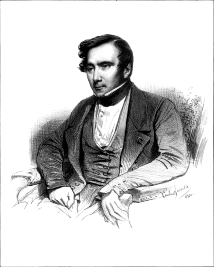 Drawing of Jacques Nicolas Augustin Thierry (1795-1856), French historian